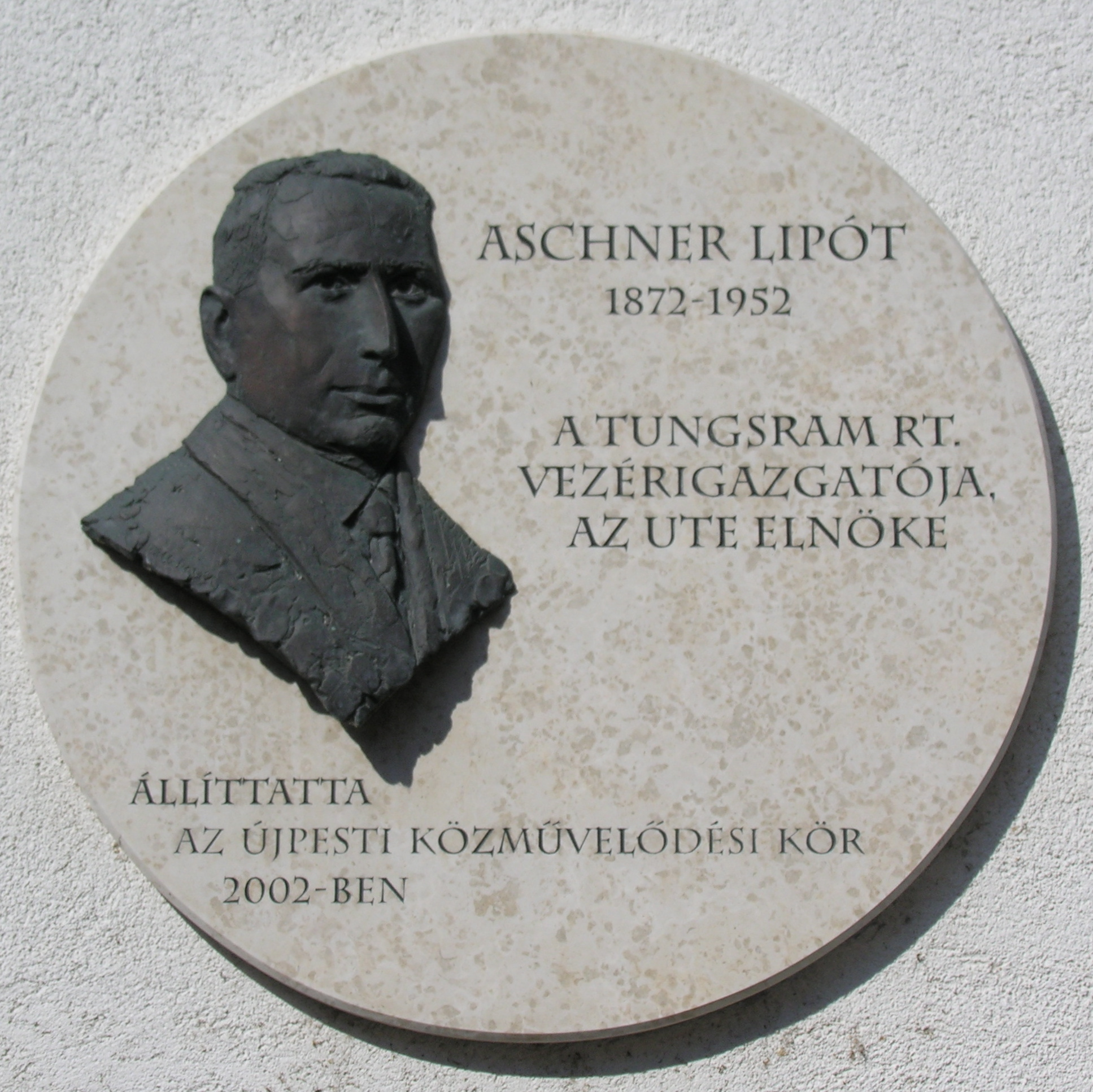 Commemorative plaque of Lipót Aschner in Budapest District IV, Megyeri Street No 13 (Szusza Ferenc Stadium). Sculptor: Dávid Tóth.